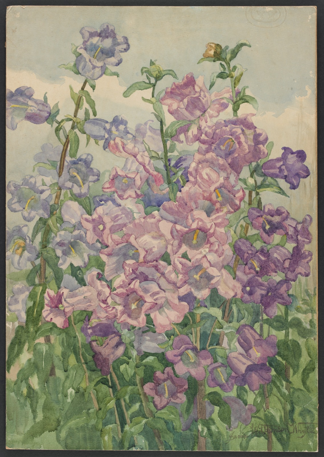 Watercolour painting of Canterbury bell flowers by Janie Wilkinson Whyte